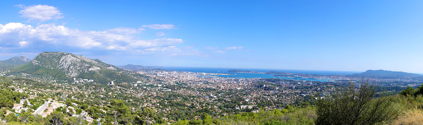 West side of Toulon, from the mountain "Baou des 4 oures"